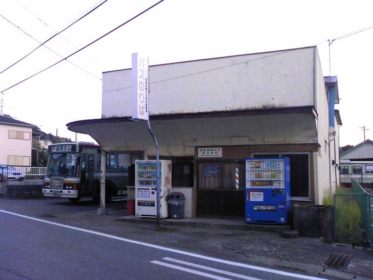 This is the head office of Amaha Nitto Bus, Japan.